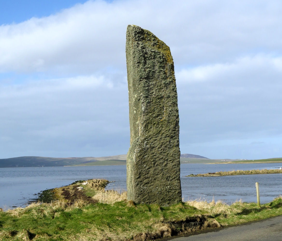 Watchstone near Standing Stones of Stenness, Stenness, Orkney, Scotland